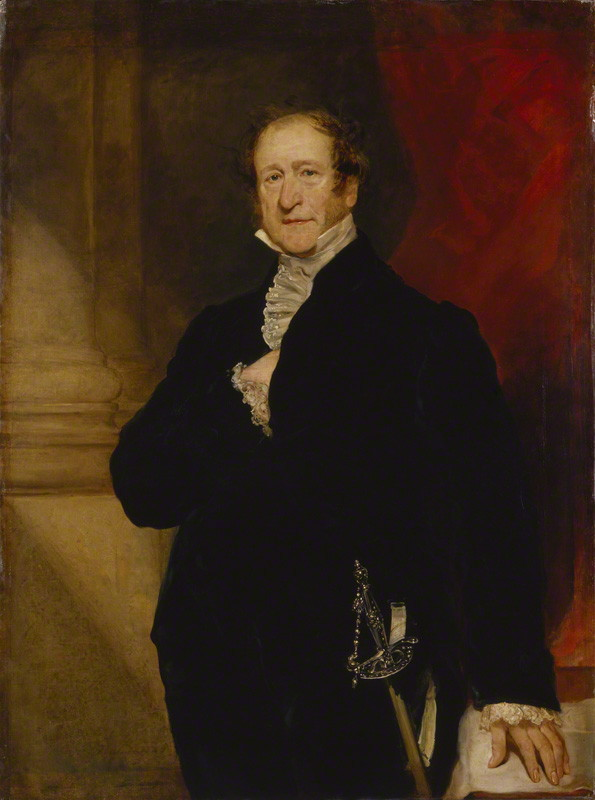 John Campbell, 1st Baron Campbell of St Andrews, by Thomas Woolnoth (died 1857). All images in this batch have been confirmed as author died before 1939 according to the official death date listed by the NPG.